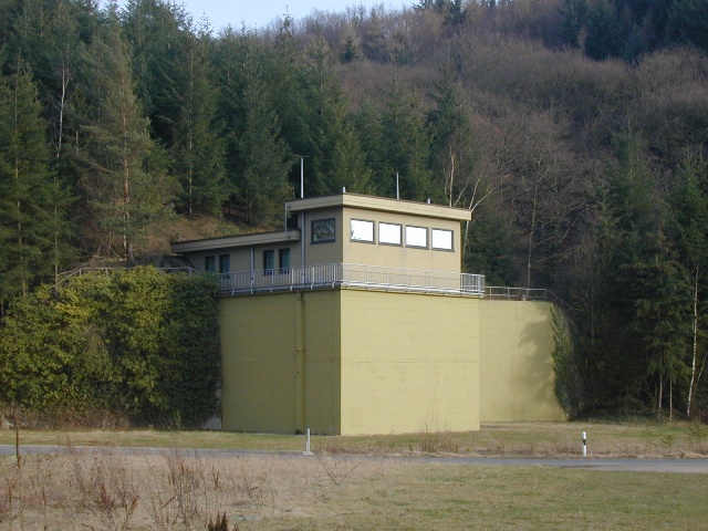 Entrance to section 2 of the government bunker at Marienthal/Ahr Valley, Germany